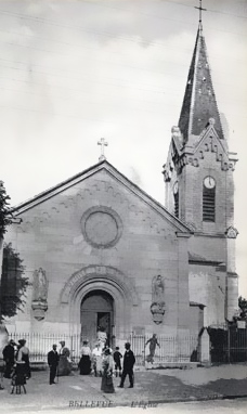 Scan of an old postcard of the Bellevue Church in Meudon (France)